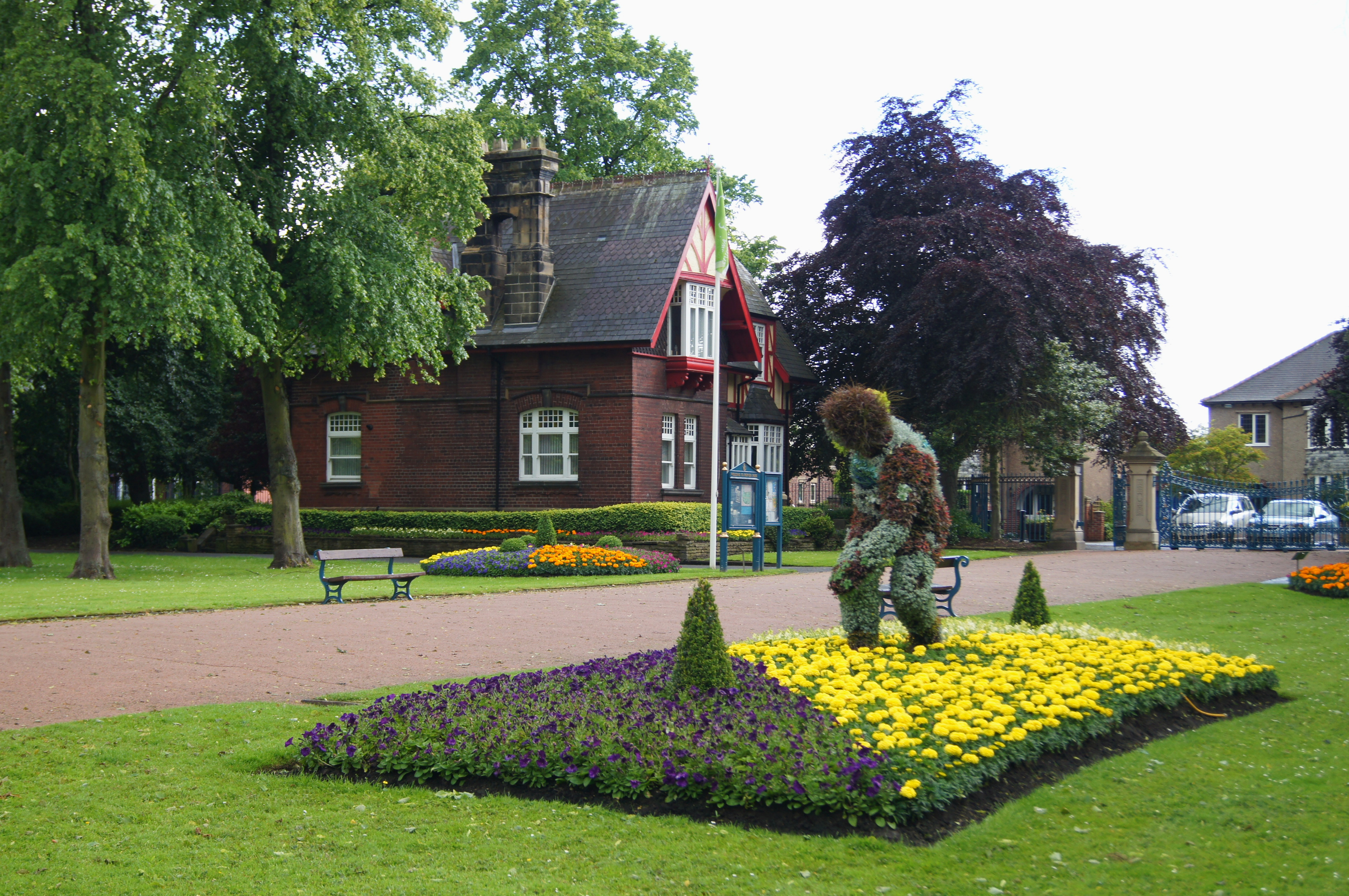 View of the South Lodge at the Hartburn Lane entrance of Ropner Park, Stockton on Tees. The floral athlete figure in the foreground commemorates the London 2012 Olympic Games.